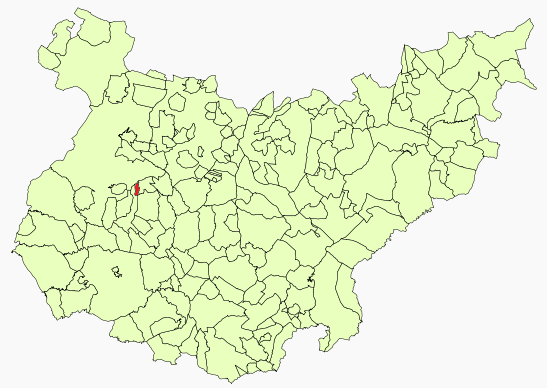 Entrín Bajo